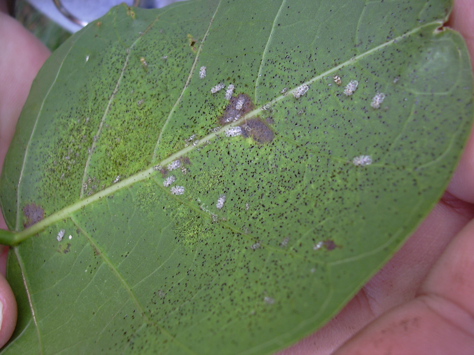 Erythrina variegata (with Corythucha gossypii). Location: Maui, Kahului